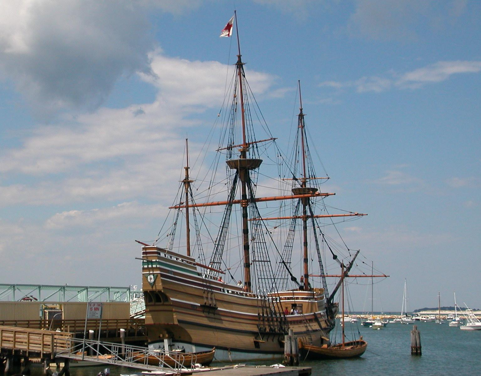 Mayflower II, a replica of the original Mayflower, docked in Plymouth, MA